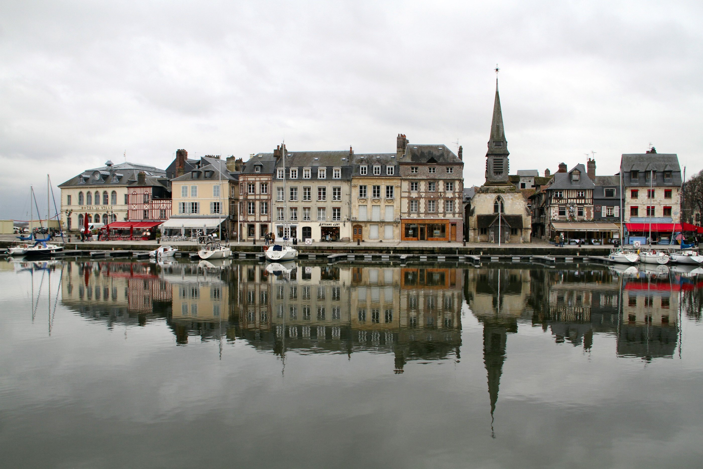 Reflection at Honfleur harbour, Normandy, France, February 2011